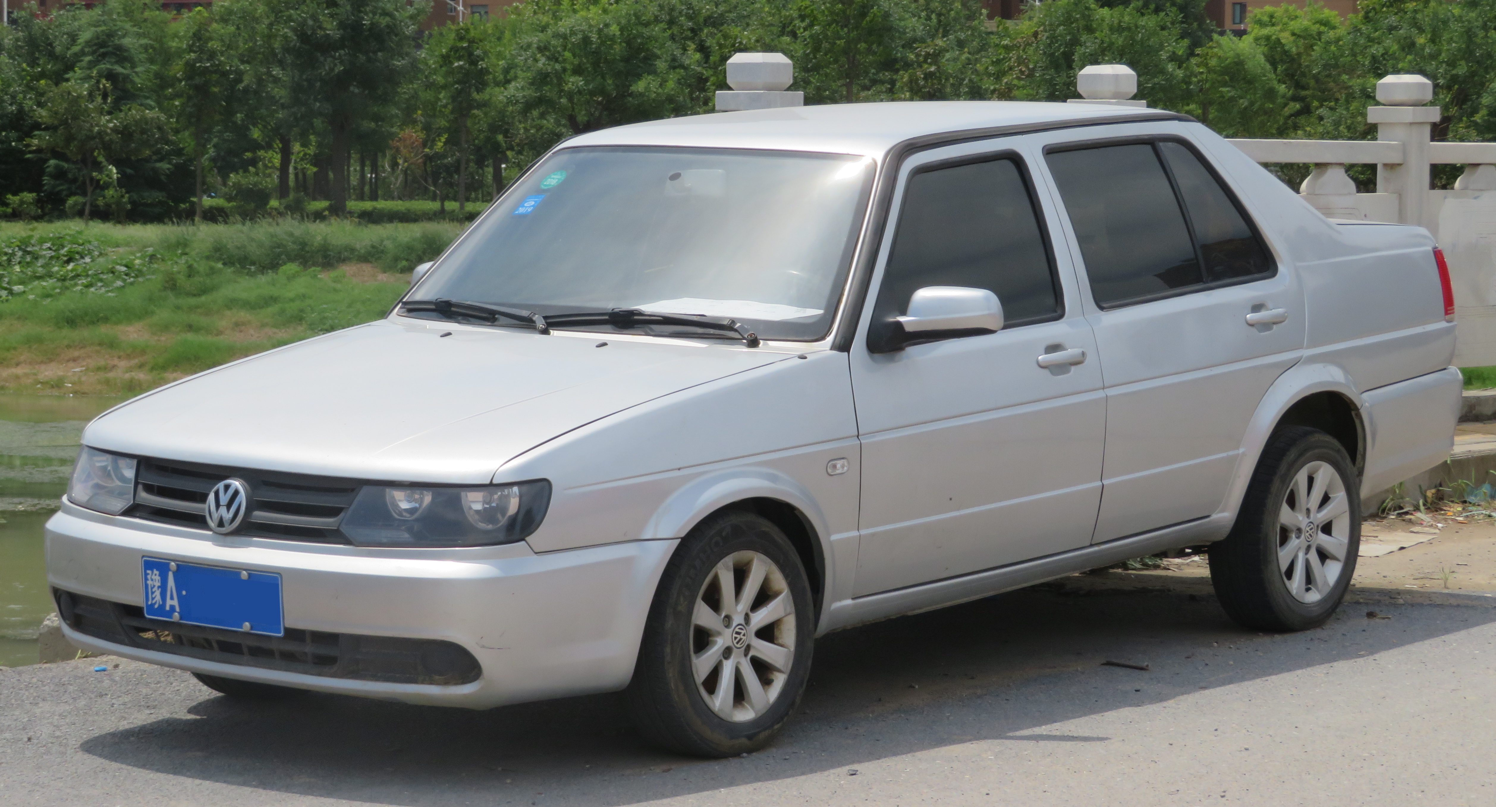 Photographed in Zhengzhou, Henan province, China